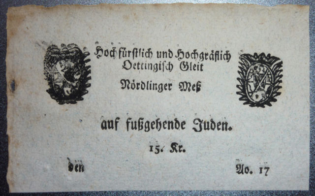 A ticket for walking Jews only, for the Nördlinger Messe in Bavaria (Germany). For the amount of 15 Kreuzer, printed around 1700. The Nördlinger Messe was a very famous fair in Bavaria, first mentioned in 1219. This trading-centre was located on the routes of Nördlingen to Ulm, Augsburg, Nuremberg, Würzburg and Strasbourg. The Fair lasted 14 days, which began a week after Pentecost.In the late Middle Ages, it was the most important trade fair in southern Germany. The catchment area of the fair ranged from Alsace and across the Alpine passes. In the year 1468, 1100 trade visitors were counted.